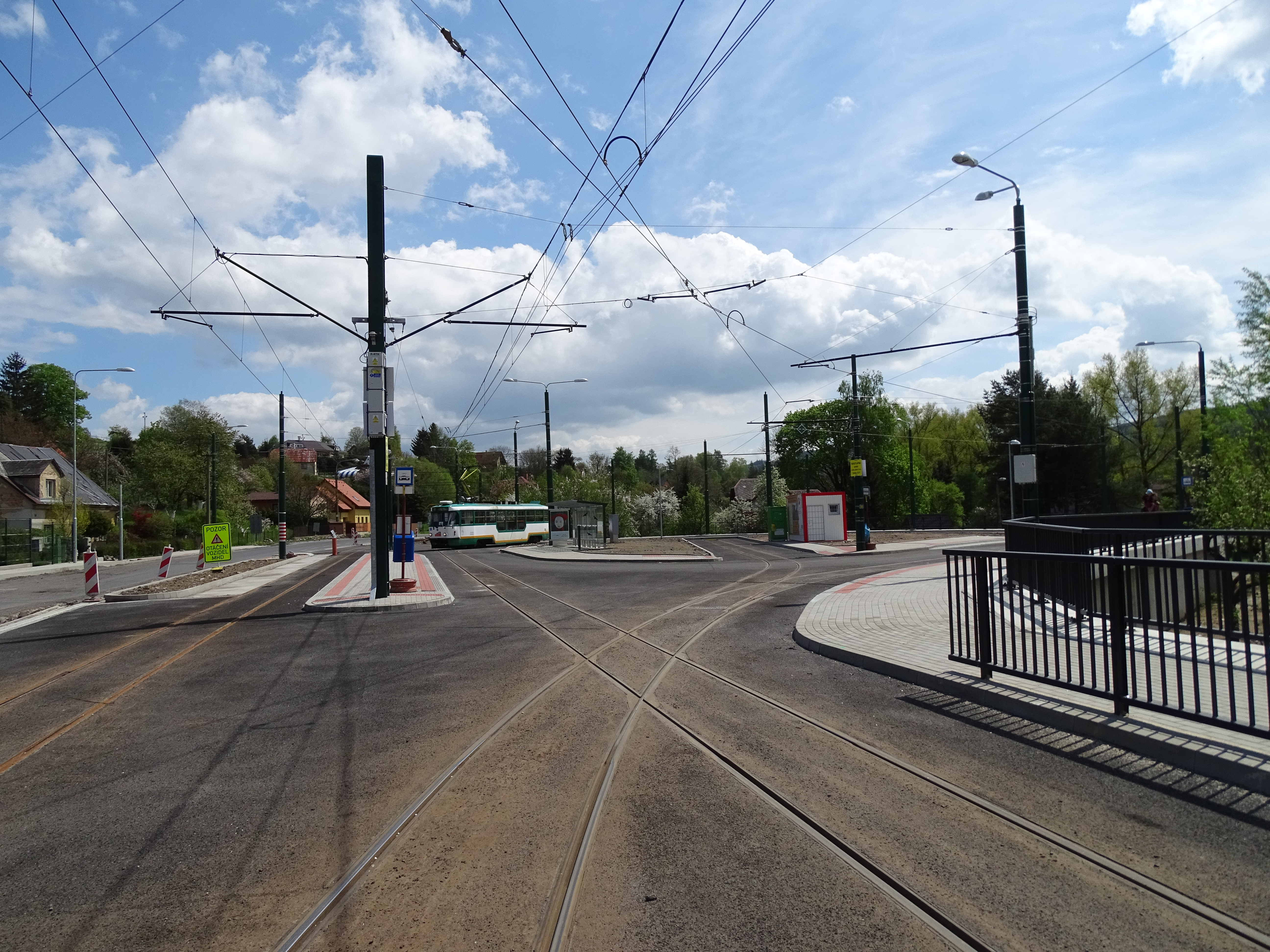 Liberec XXX-Vratislavice nad Nisou, Liberec District, Liberec Region, Czech Republic. Tanvaldská street, tram stop and loop Vratislavice nad Nisou, výhybna.